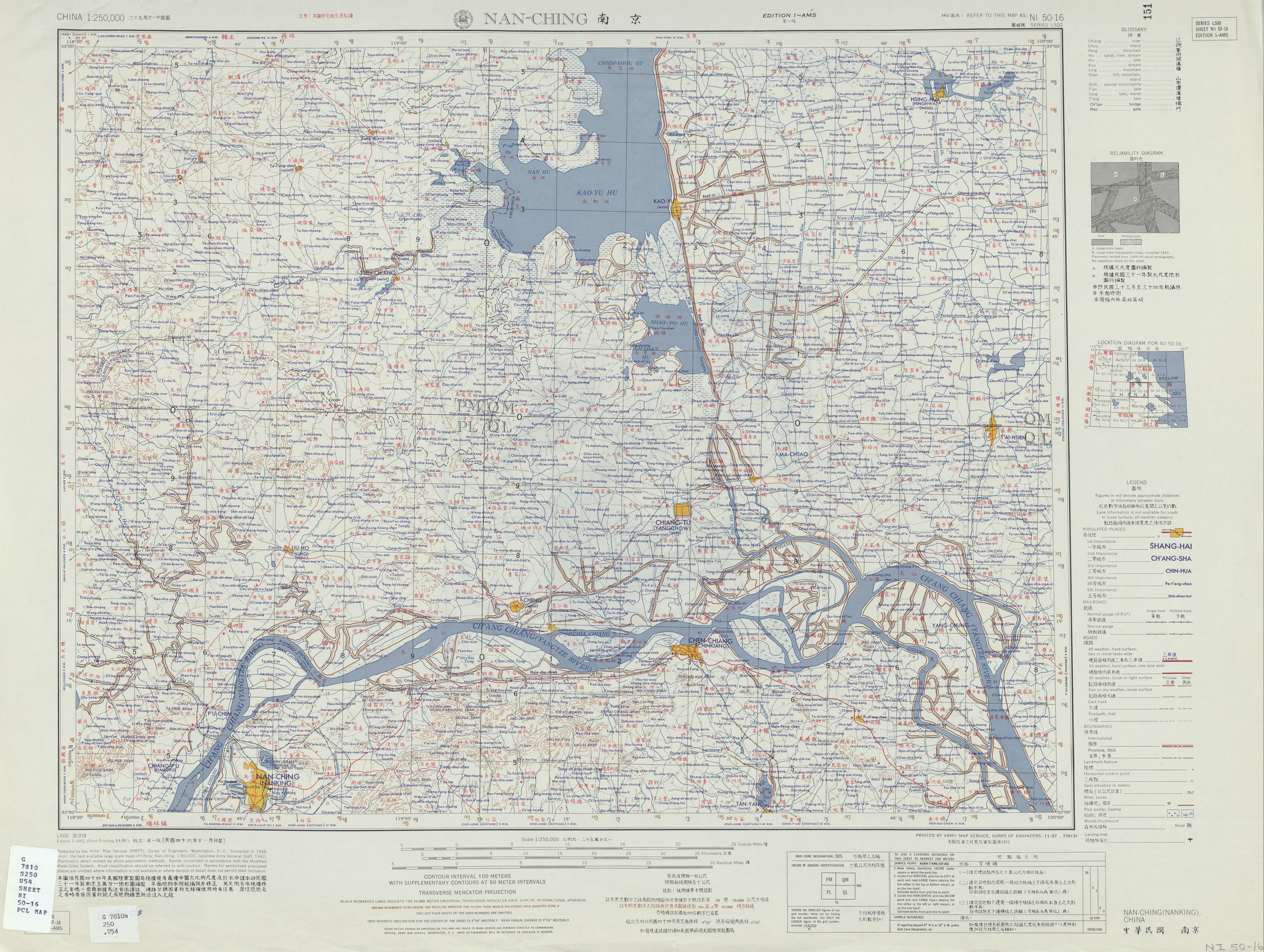 China AMS Topographic Maps